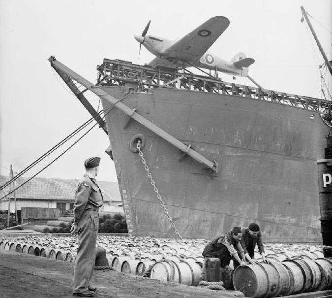 An airman watches as Algerian dock workers roll barrels of oil along the quayside at Algiers. Behind them is Hawker Sea Hurricane Mark I, W9182, of the Merchant Ship Fighter Unit mounted on the fo'c'sle catapult of a Catapult Armed Merchantman (CAM ship).